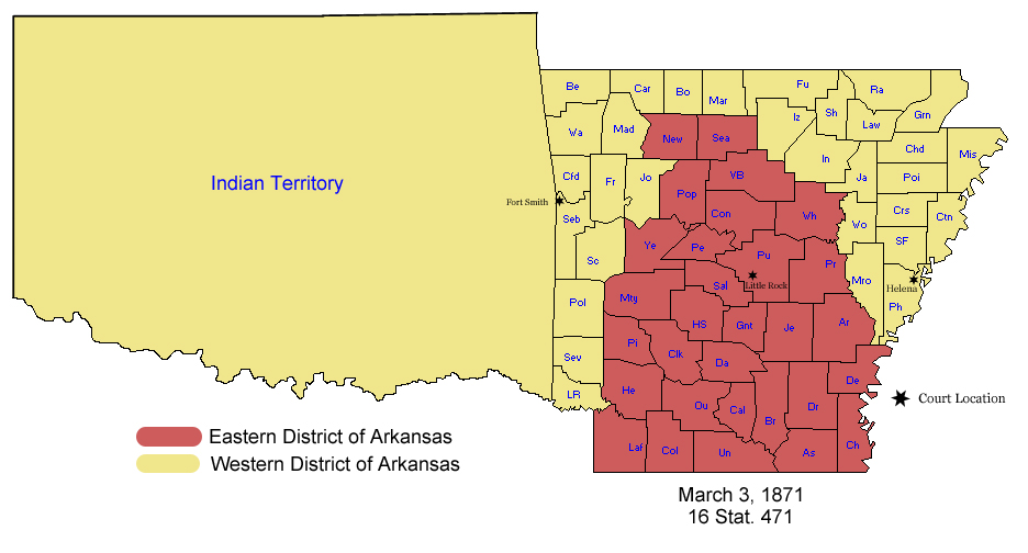 Arkansas districts - 1871